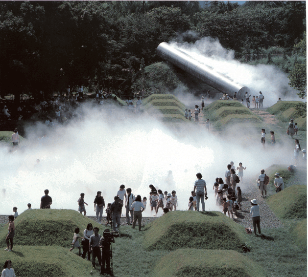 fog forest